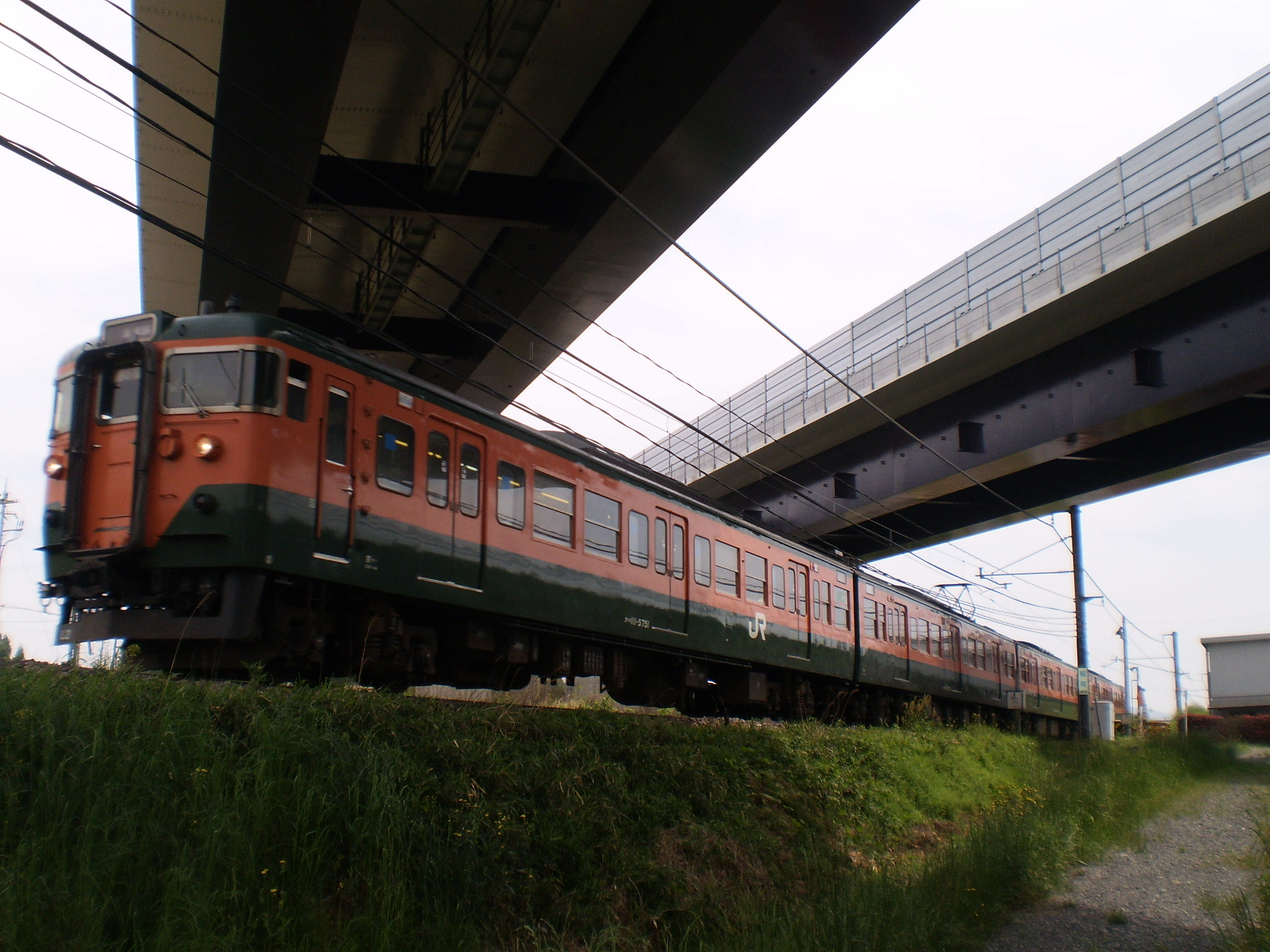 Takano elevatedbridge of Shin-Meishin Expressway. I took this image at Takano Koka-cho Koka City Shiga Pref., Japan